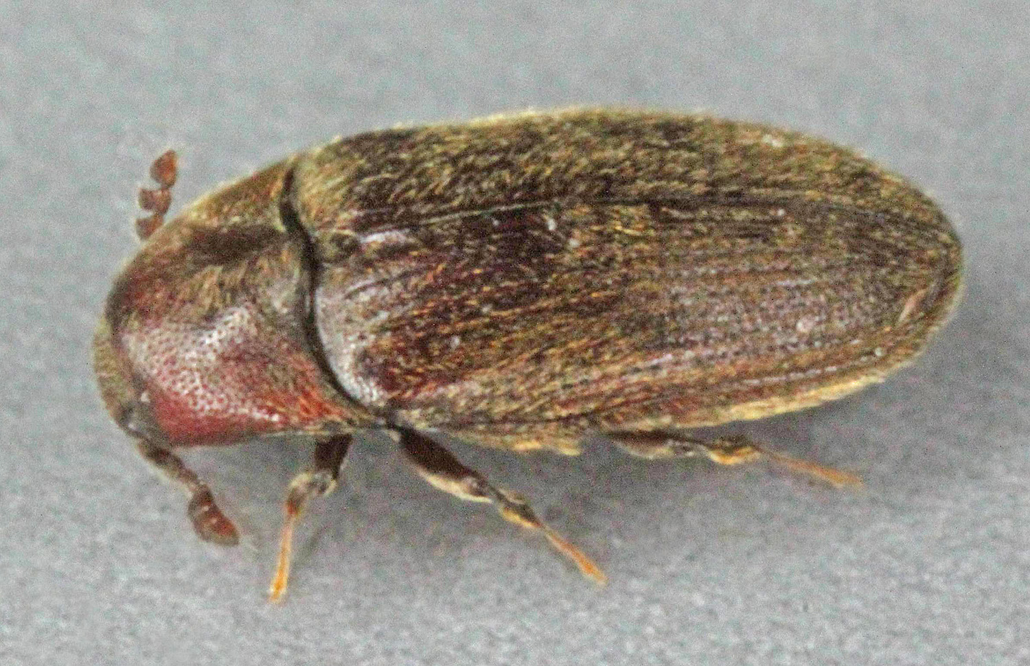 Trixagus dermestoides, Fenns Moss, North Wales, June 2011